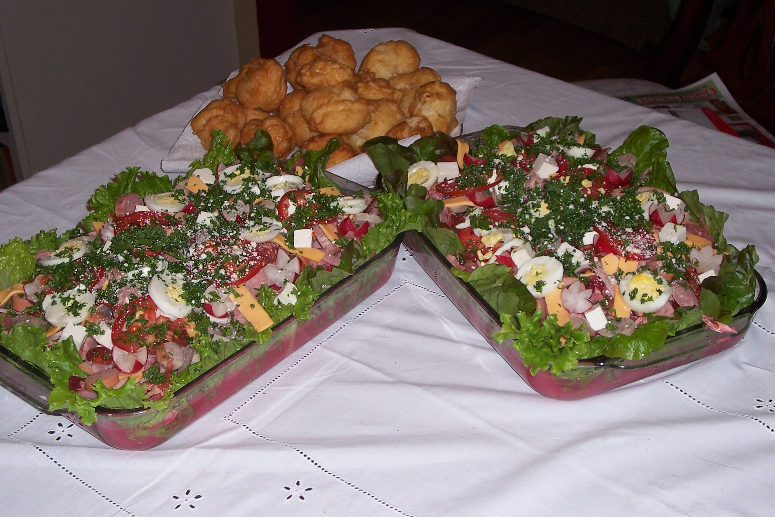 Fiambre, a traditional guatemalan dish